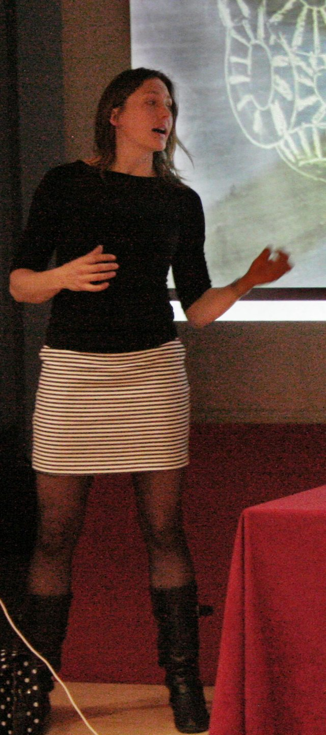 Helen Czerski presenting the 2013 Cambridge Science Festival talk "A world of science toys" at the McCrum Lecture Theatre, Corpus Christi College, Cambridge, England.